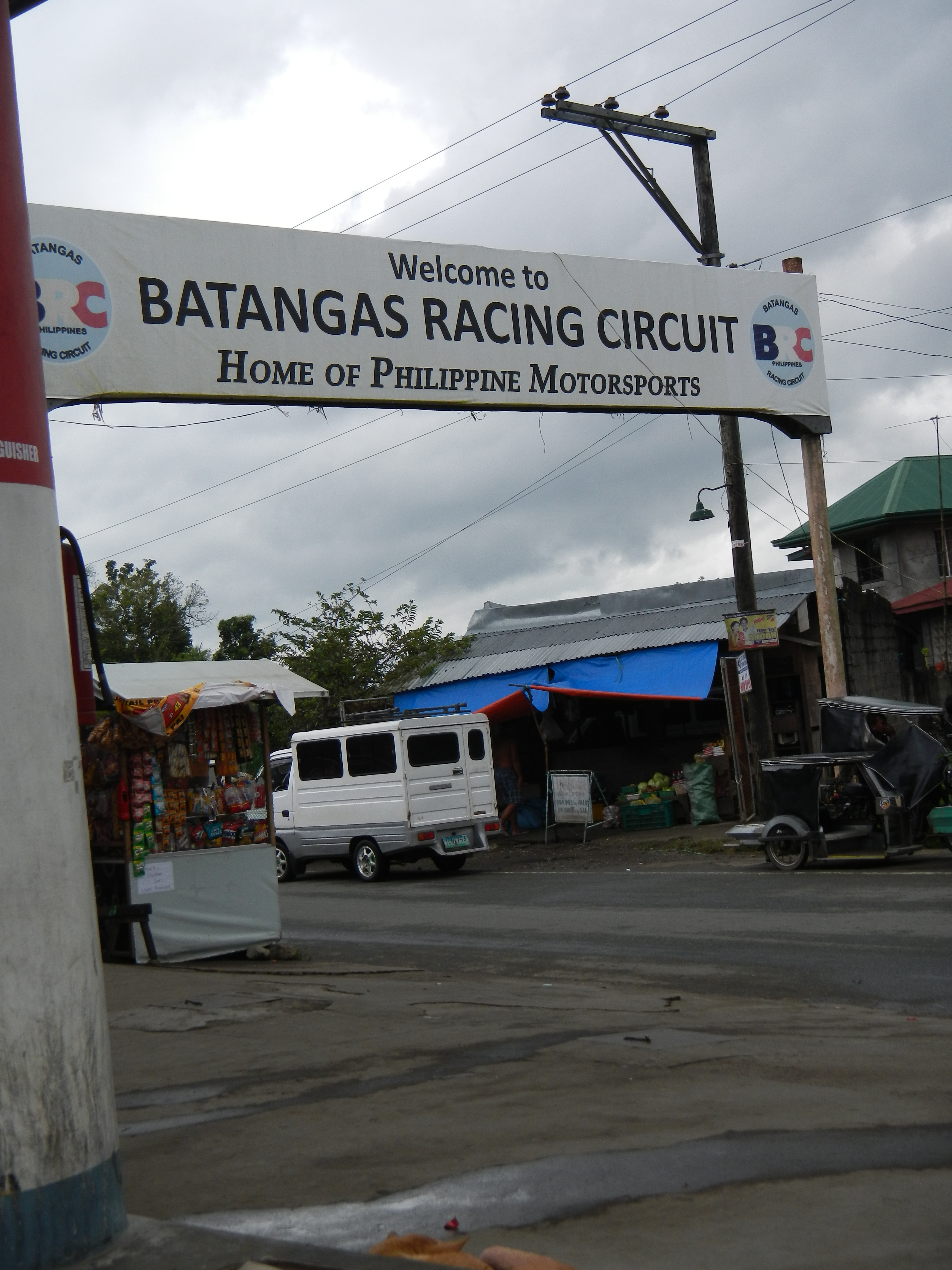 Batangas Racing Circuit [1] (a permanent circuit in Barrio Maligaya, Rosario, Batangas, Philippines 3.4km long)